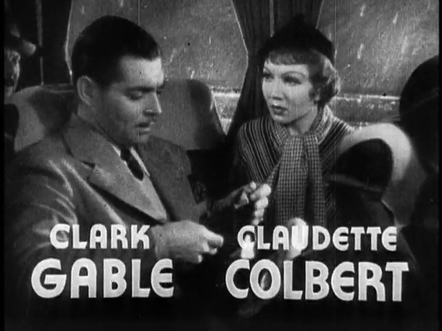 Cropped screenshot of Clark Gable and Claudette Colbert from the trailer for the film It Happened One Night.